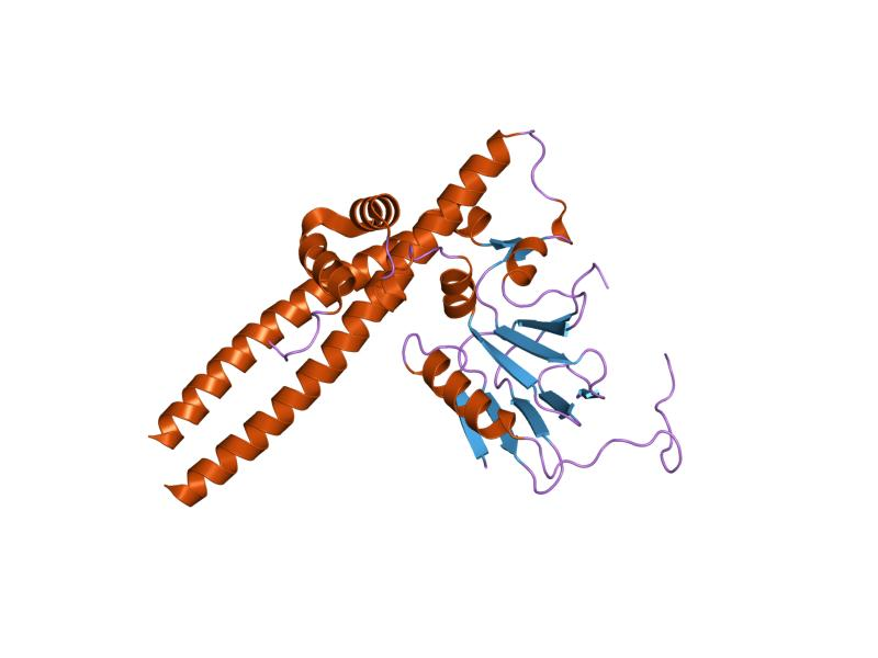 Cartoon representation of the molecular structure of protein registered with 2aze code.